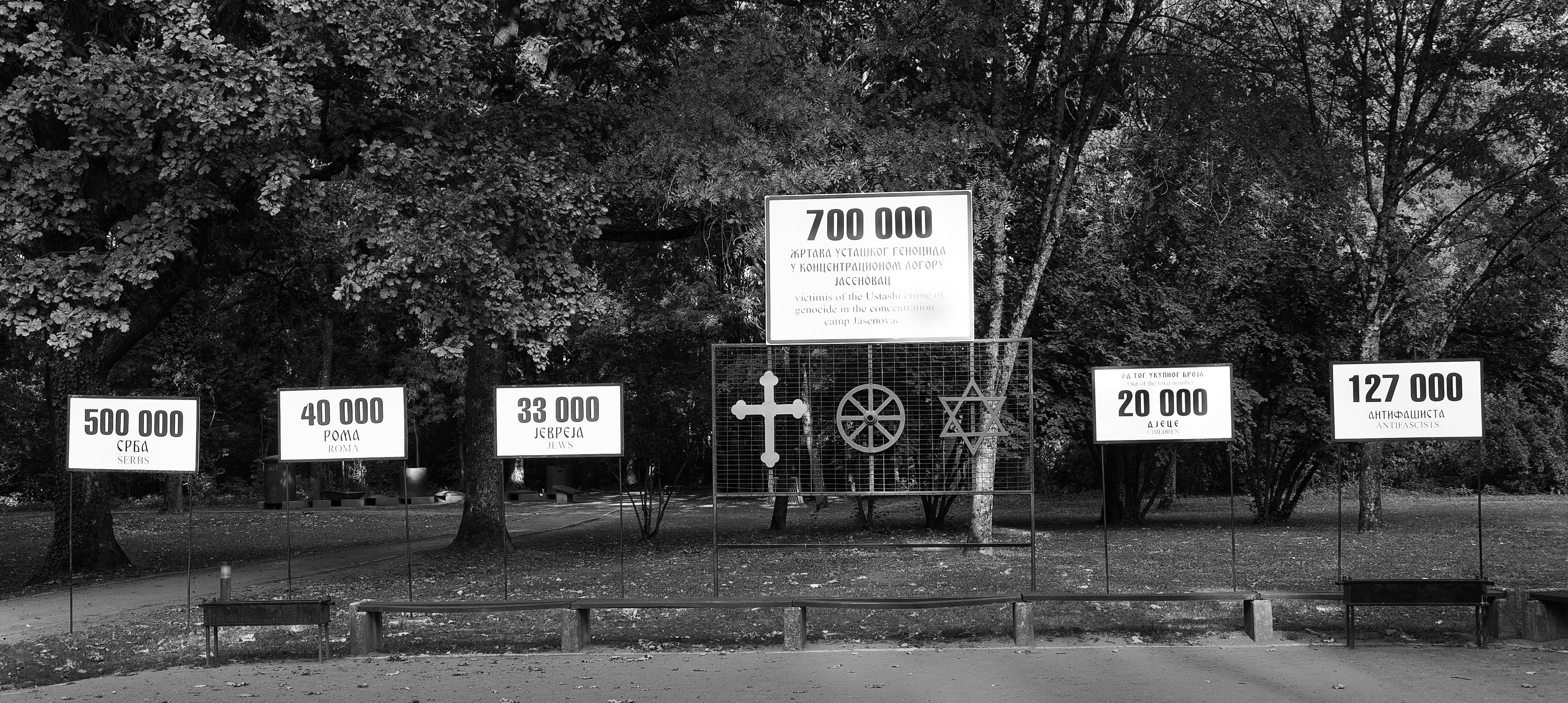 Killing grounds at Donja Gradina, used by Croat Ustaše for murdering of Serbs, Jews, Romas and other political prisoners. Used in Second World War 1941-1945, part of Jasenovac concentration camp Српски (ћирилица): Доња Градина спомен подручје усташког логора. Република Српска Градина - спомен подручје, Козарска Дубица ID добра: NKD405 This image was uploaded as part of Trace of Soul 2017. English | Српски / srpski | +/− This photograph was taken with a Olympus E-M1.